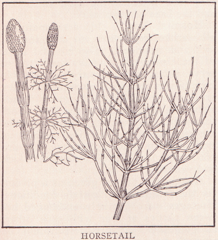 This illustration is from "The Home and School Reference Work, Volume IV" by The Home and School Education Society, H. M. Dixon, President and Managing Editor. The book was published in 1917 by The Home and School Education Society. Flickr data on 2011-08-23: Tags: 1917, book, The Home and School Reference Work, copyright free, creative commons, flickr, free, freebie License: CC BY 2.0 User: perpetualplum Sue Clark